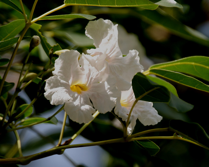 Tabebuia pallida in Secunderabad , India.